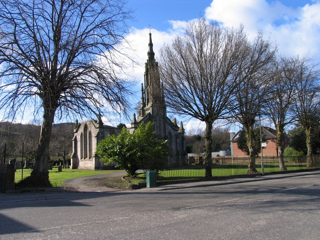 Millburn Church Renton Millburn Church Renton